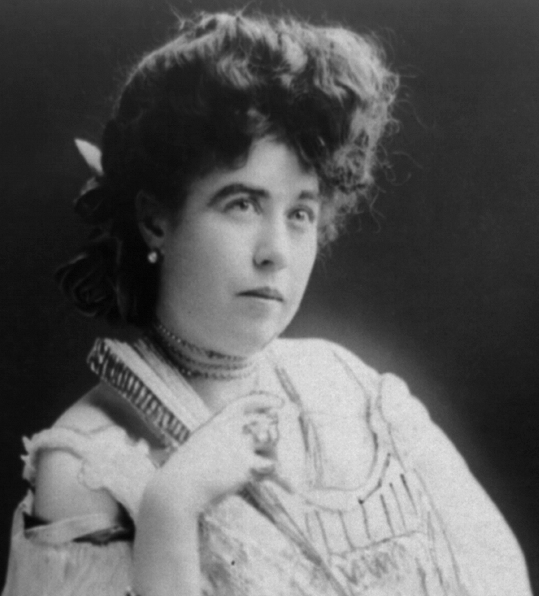 Mrs. James J. "Molly" Brown, survivor of the Titanic, three-quarter length portrait, standing, facing right, right arm on back of chair